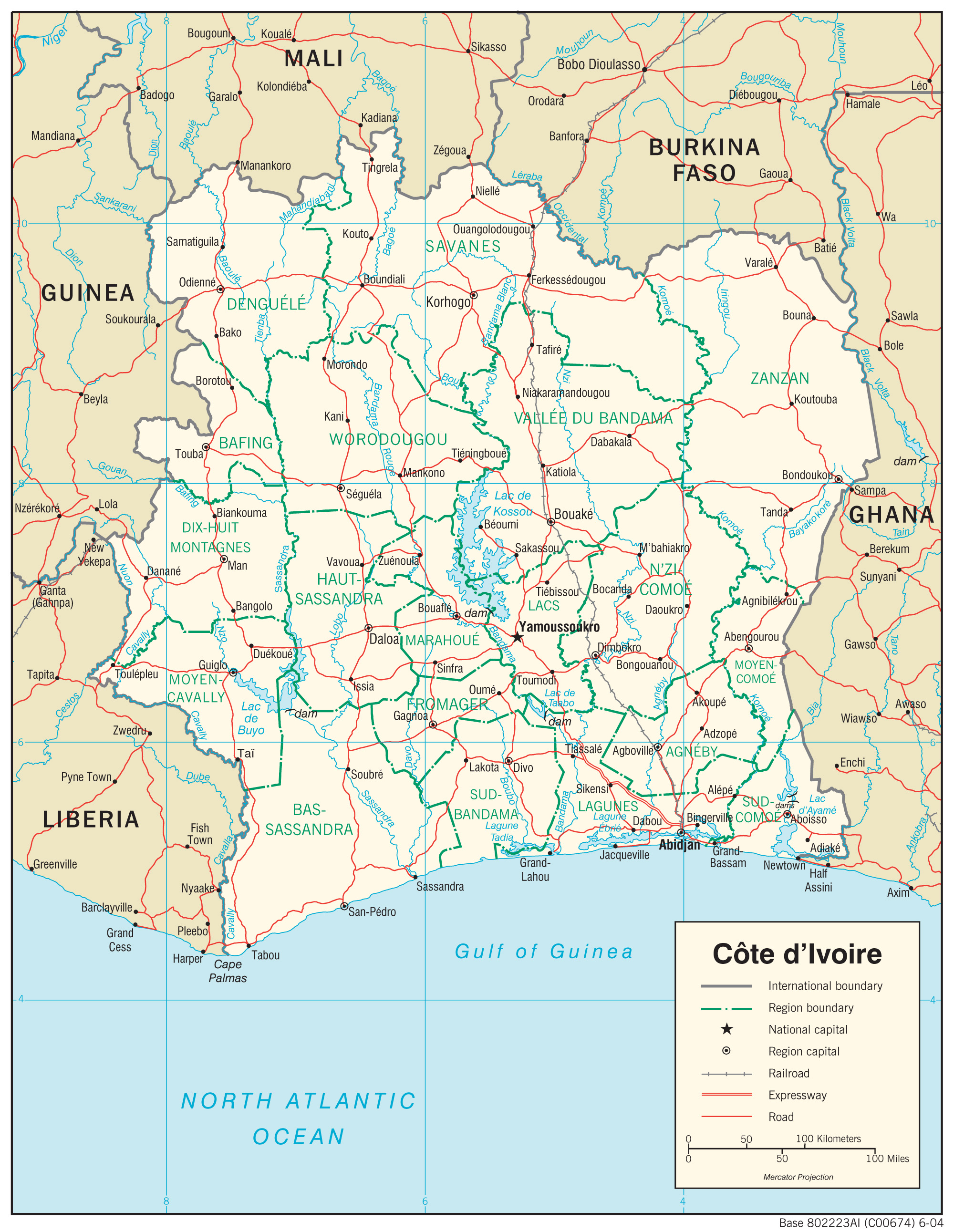 Transport system in Cote d'Ivoire, 2004.